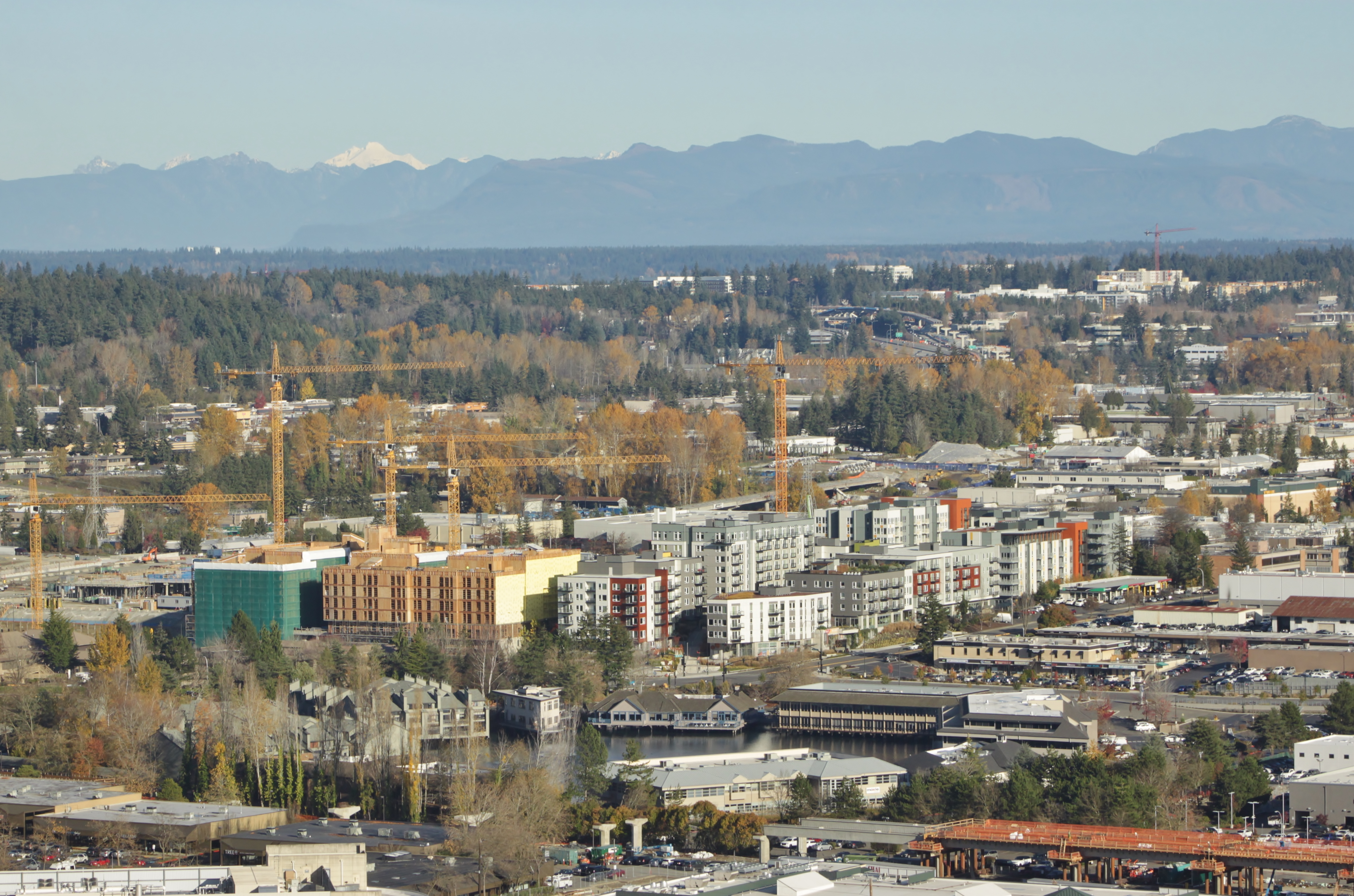 An overhead view of the under construction Spring District area in Bellevue, Washington, as seen from the west atop The Bravern office complex.